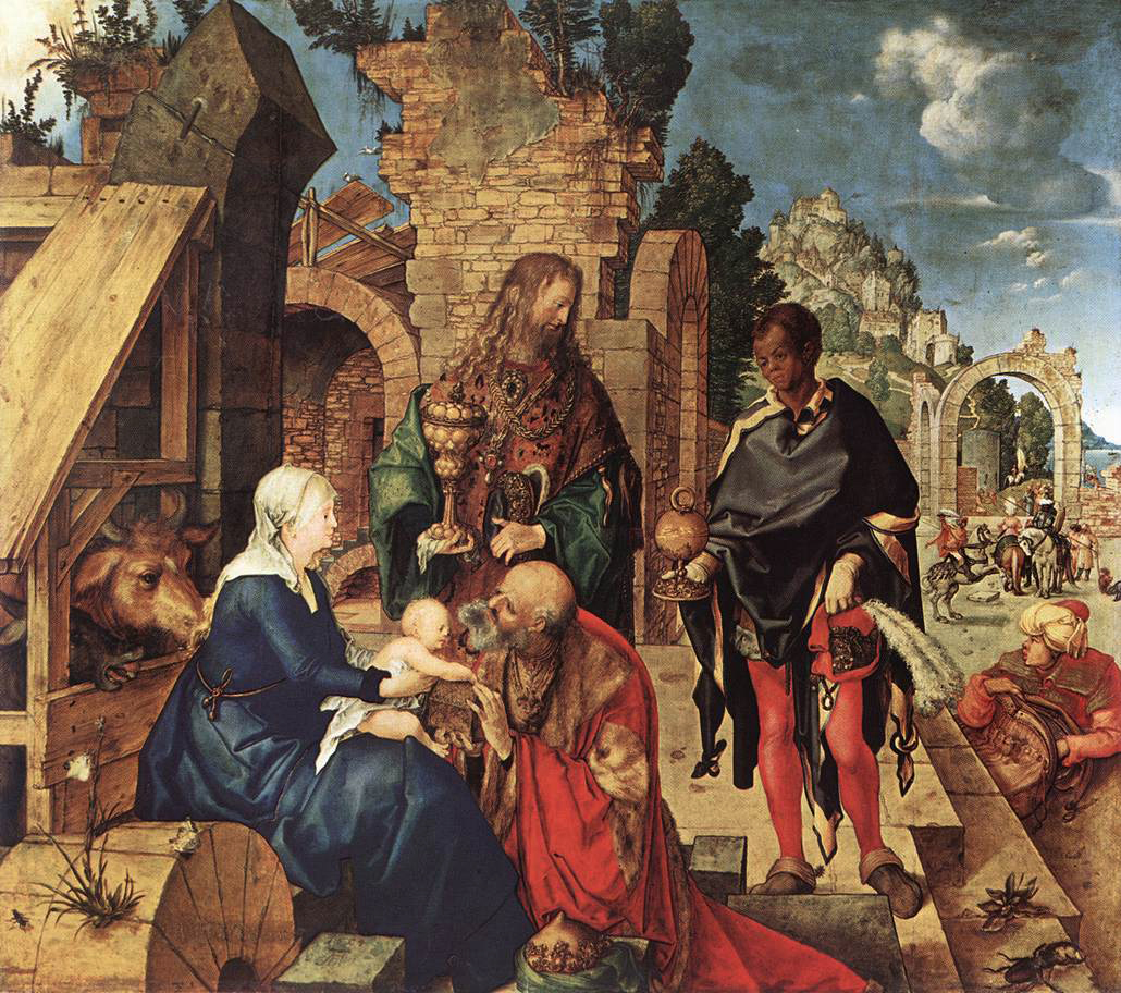 Albrecht Durer, "Adoration of the Magi," ca. 1504